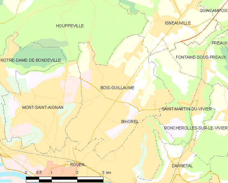 Map of French municipality Bois-Guillaume